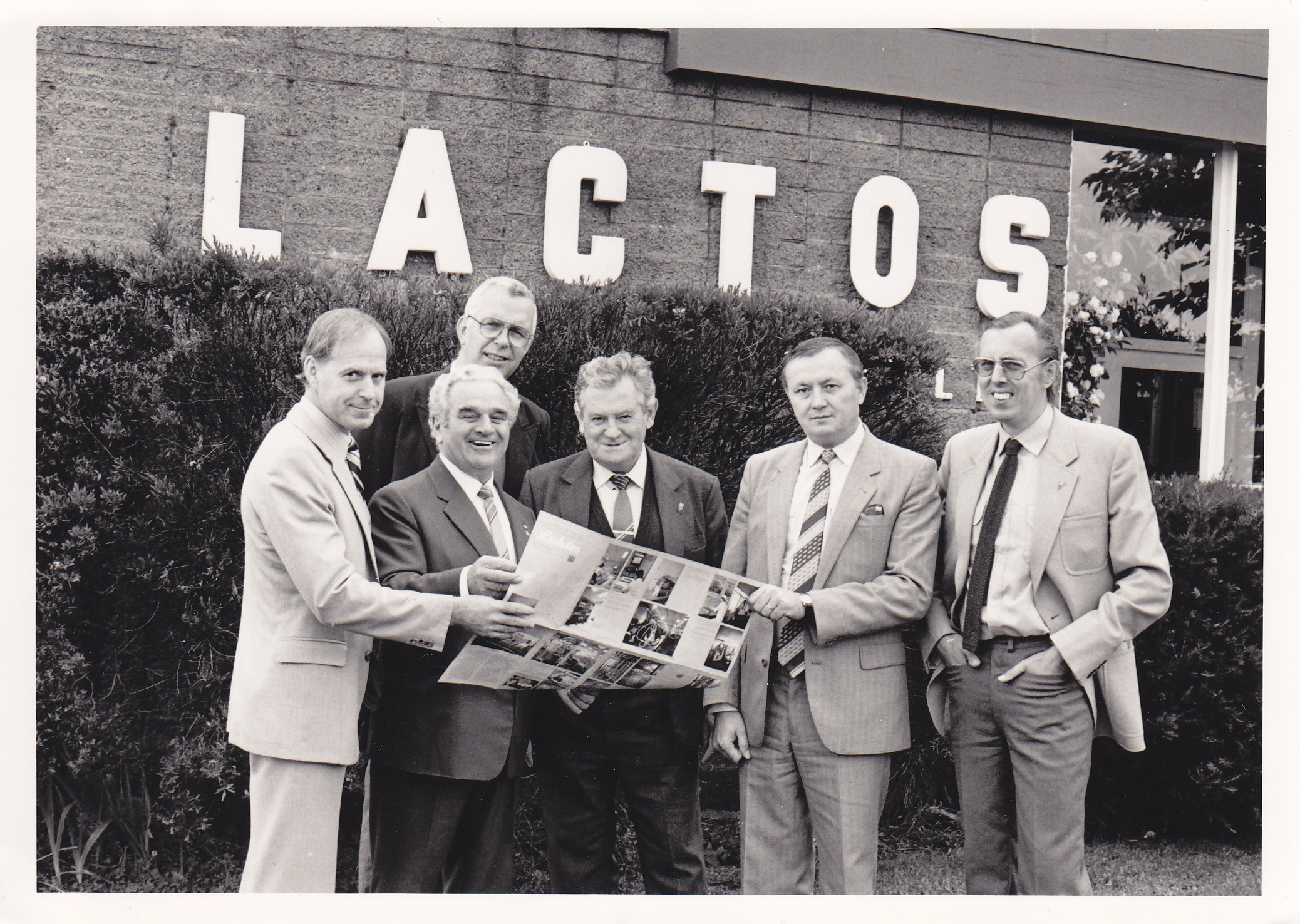 Milan Vyhnálek with colleagues